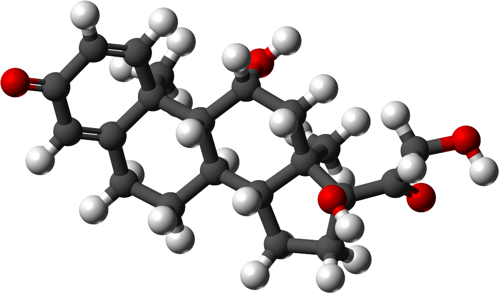 Prednisolone molecule 3D structure (methodology)